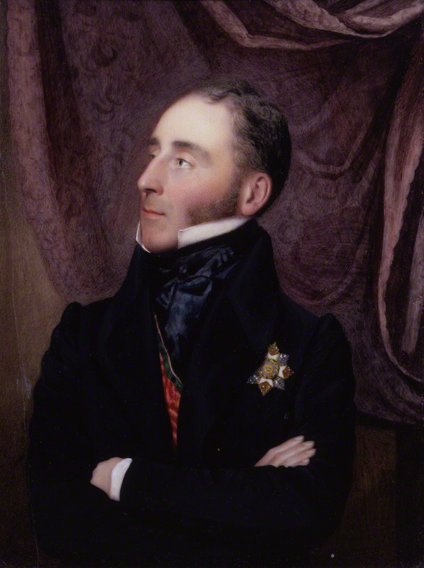 Portrait of John Conroy (1786–1854), British Army officer and royal official.